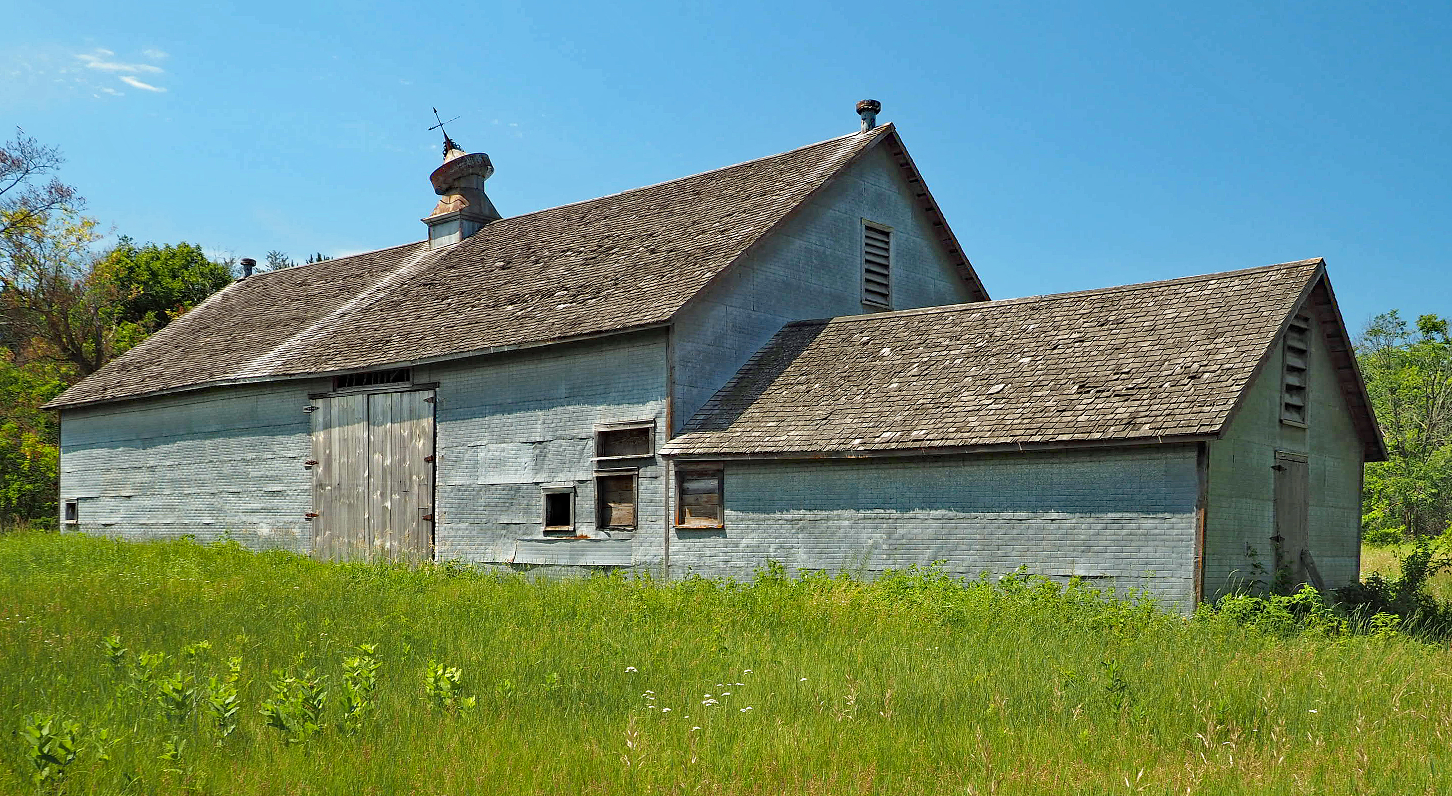 McDougall Barn, McDougall State Wildlife Management Area, Bellevue Township, Minnesota, USA. Viewed from the northeast.